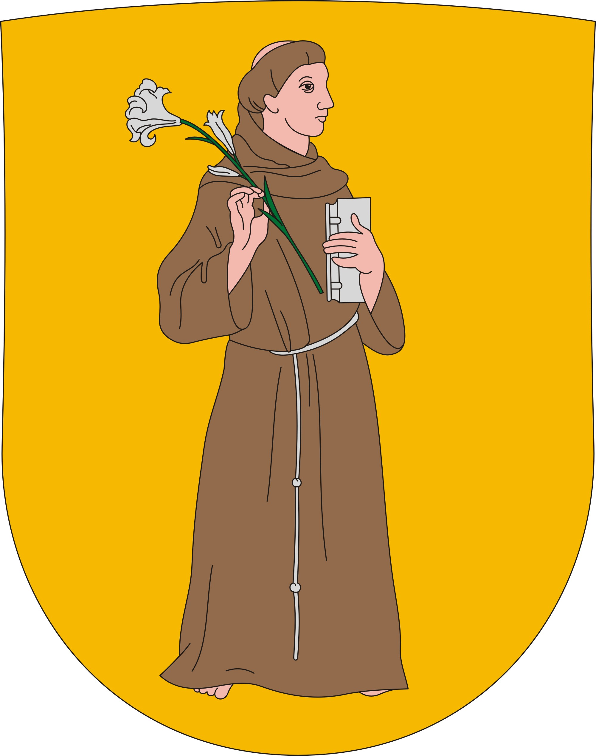 Coat of arms of Velény, Hungary